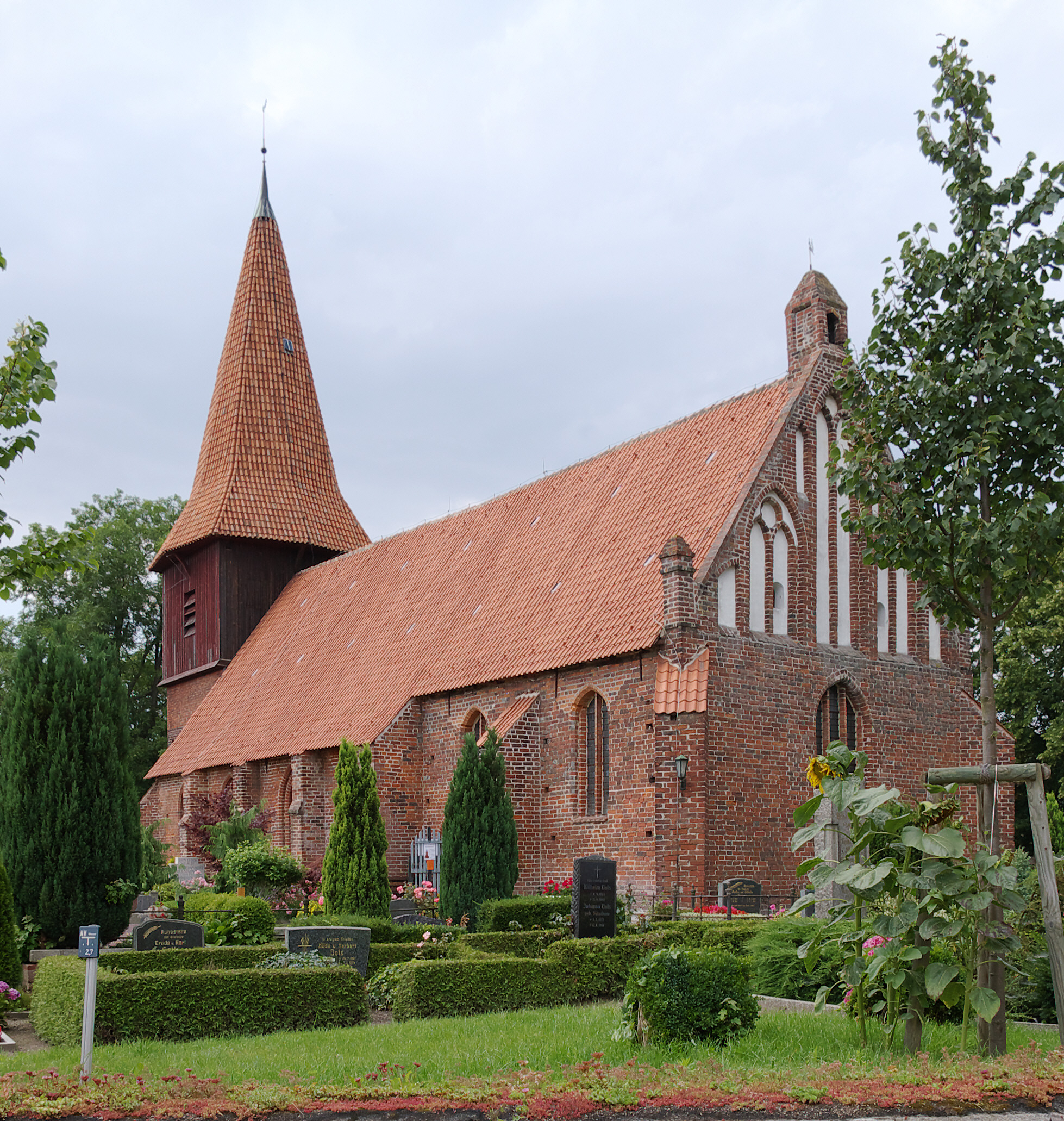 St. Nikolai church, Altefähr (a municipality in the Vorpommern-Rügen district, in Mecklenburg-Vorpommern, Germany)